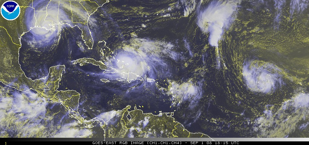 Hurricanes Gustav and Hanna in the Atlantic with Tropical Depression Nine.